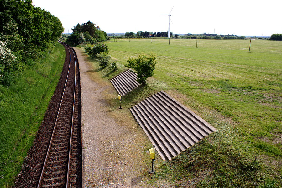 The temporary train station at Roskilde Festival, Roskilde, Denmark is empty outside the festival-time.